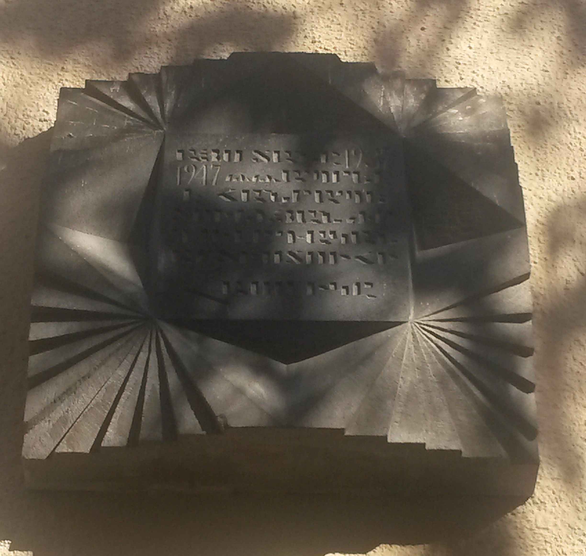 Actress Hasmik's plaque